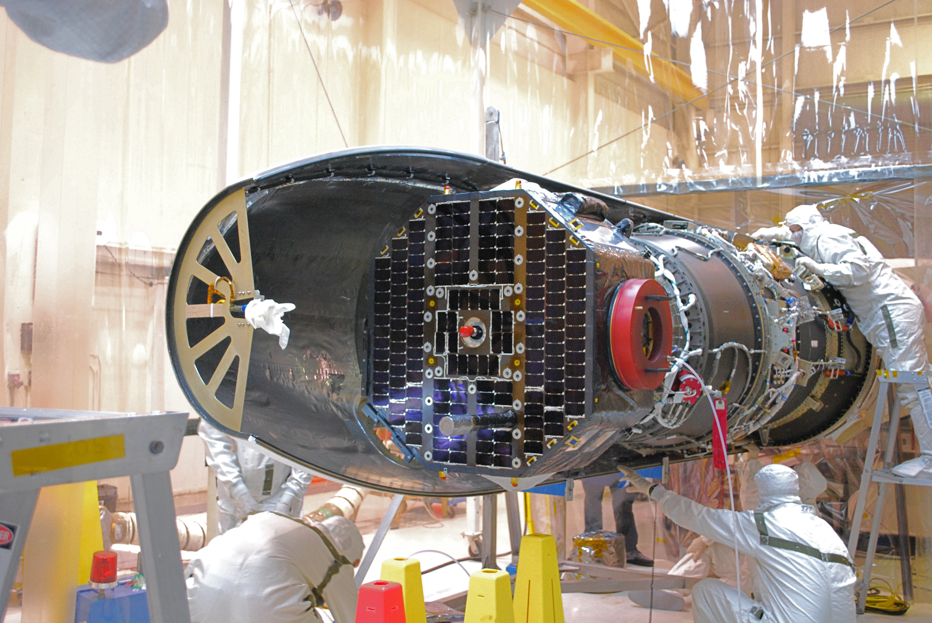 Vandenberg Air Force Base, Calif. – Inside a protected clean room tent on Vandenberg Air Force Base in California, workers install the fairing around NASA’s Interstellar Boundary Explorer, or IBEX, spacecraft. The fairing is a molded structure that fits flush with the outside surface of the rocket and forms an aerodynamically smooth nose cone, protecting the spacecraft during launch and ascent. The IBEX satellite will make the first map of the boundary between the Solar System and interstellar space. IBEX is targeted for launch from the Kwajalein Atoll, a part of the Marshall Islands in the Pacific Ocean, on Oct. 19. IBEX will be launched aboard a Pegasus rocket dropped from under the wing of an L-1011 aircraft flying over the Pacific Ocean. The Pegasus will carry the spacecraft approximately 130 miles above Earth and place it in orbit. Photo credit: NASA/Randy Beaudoin, VAFB